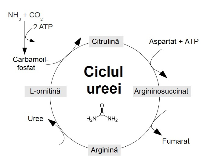 Urea cycle, simplified (Romanian)